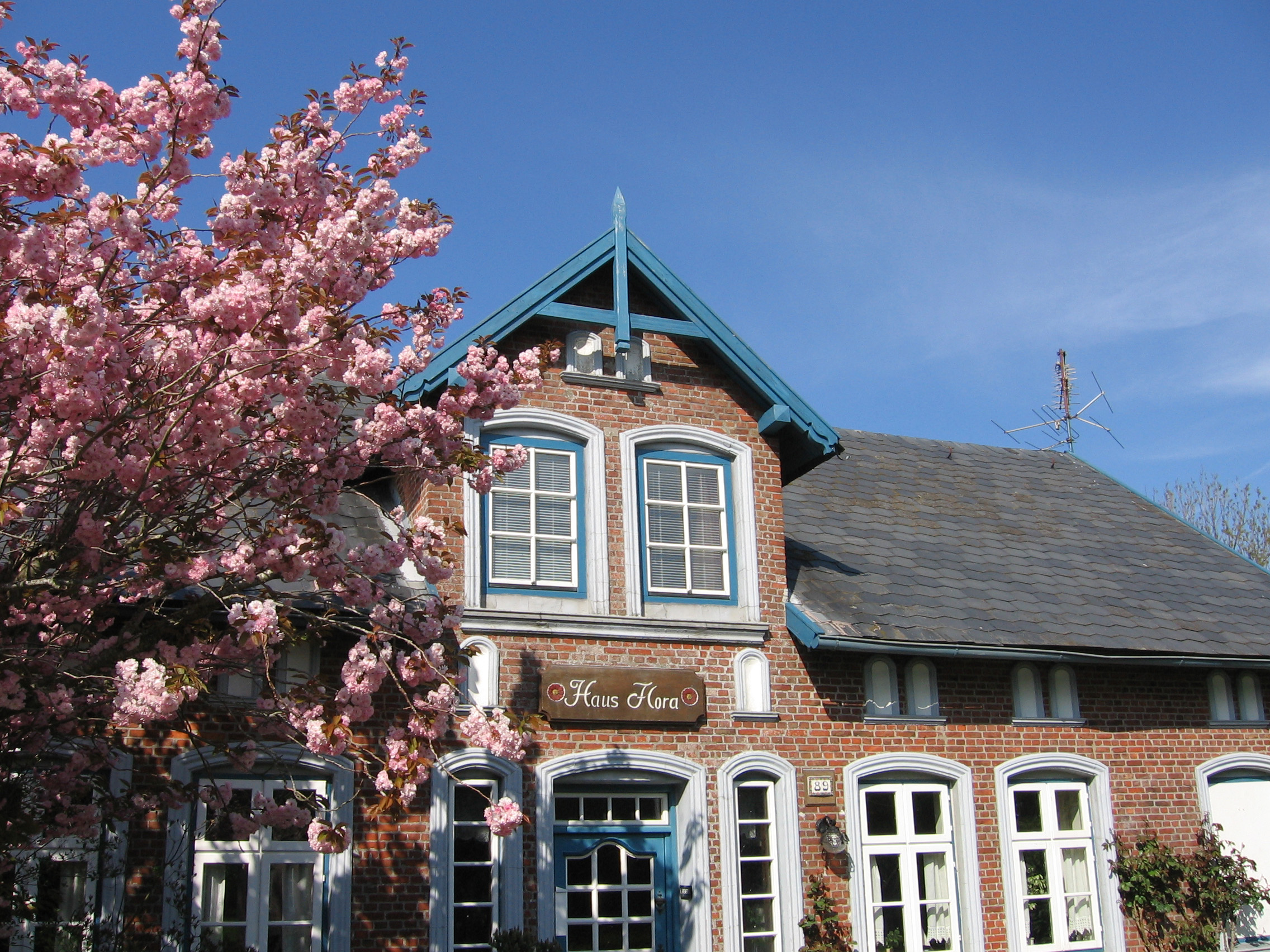 House "Flora" in Oldsum/Föhr, Germany, native house of publisher Friede Springer